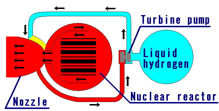 The sketch of Nuclear-thermal-rocket written in English.